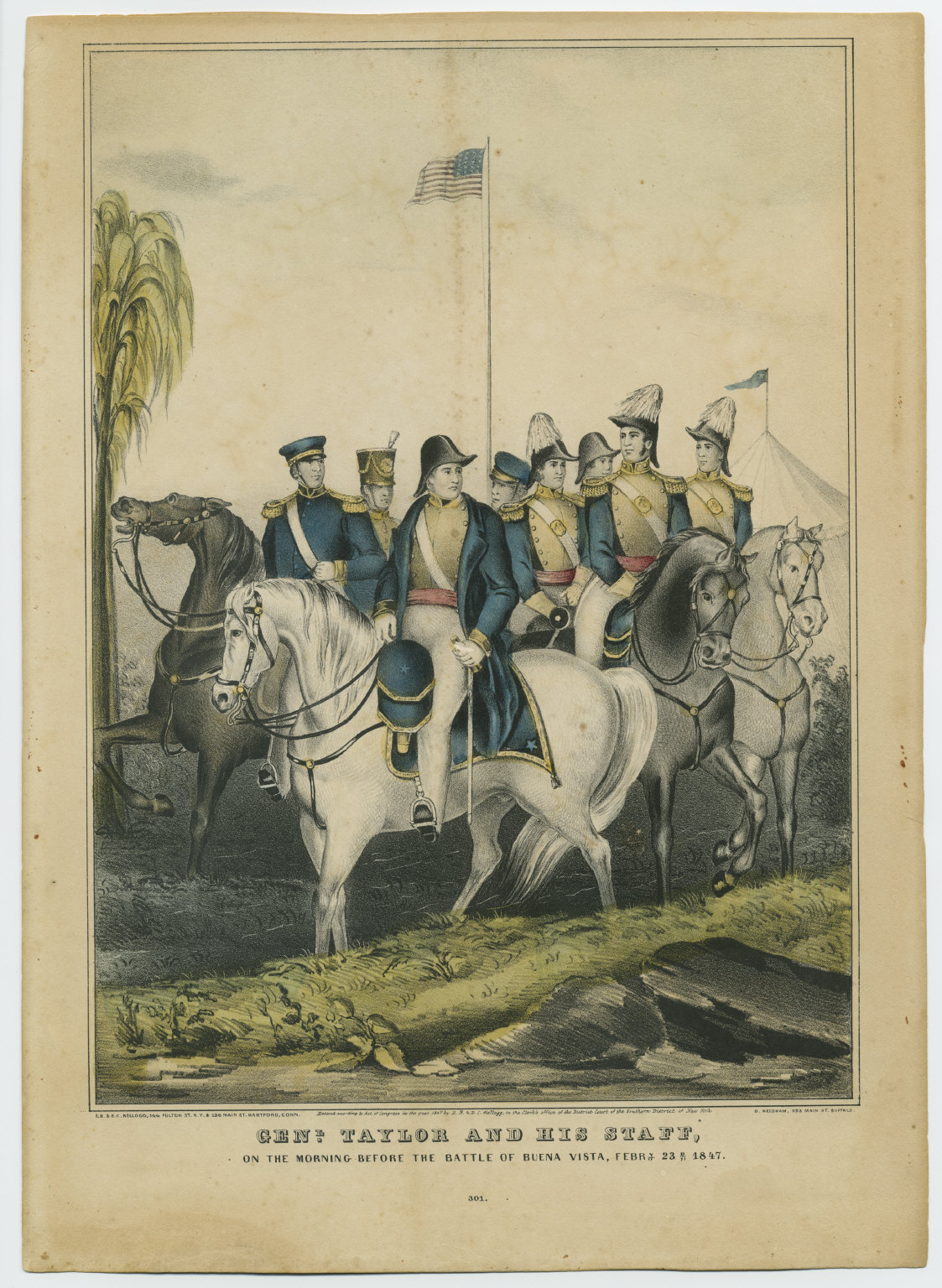 Collection: Cornell University Collection of Political Americana, Cornell University Library Repository: Susan H. Douglas Political Americana Collection, #2214 Rare & Manuscript Collections, Cornell University Library, Cornell University Title: Genl. Taylor and His Staff on the Morning Before the Battle of Buena Vista Political Party: Whig Election Year: 1848 Date Made: 1847 Measurement: Print: 14 x 10 in.; 35.56 x 25.4 cm Classification: Prints Persistent URI: There are no known U.S. copyright restrictions on this image. The digital file is owned by the Cornell University Library which is making it freely available with the request that, when possible, the Library be credited as its source.